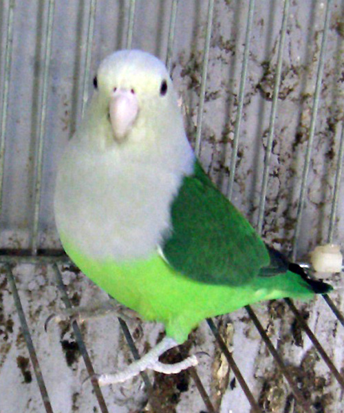 カルカヤインコ （Grey-headed Lovebird or Madagascar Lovebird ）